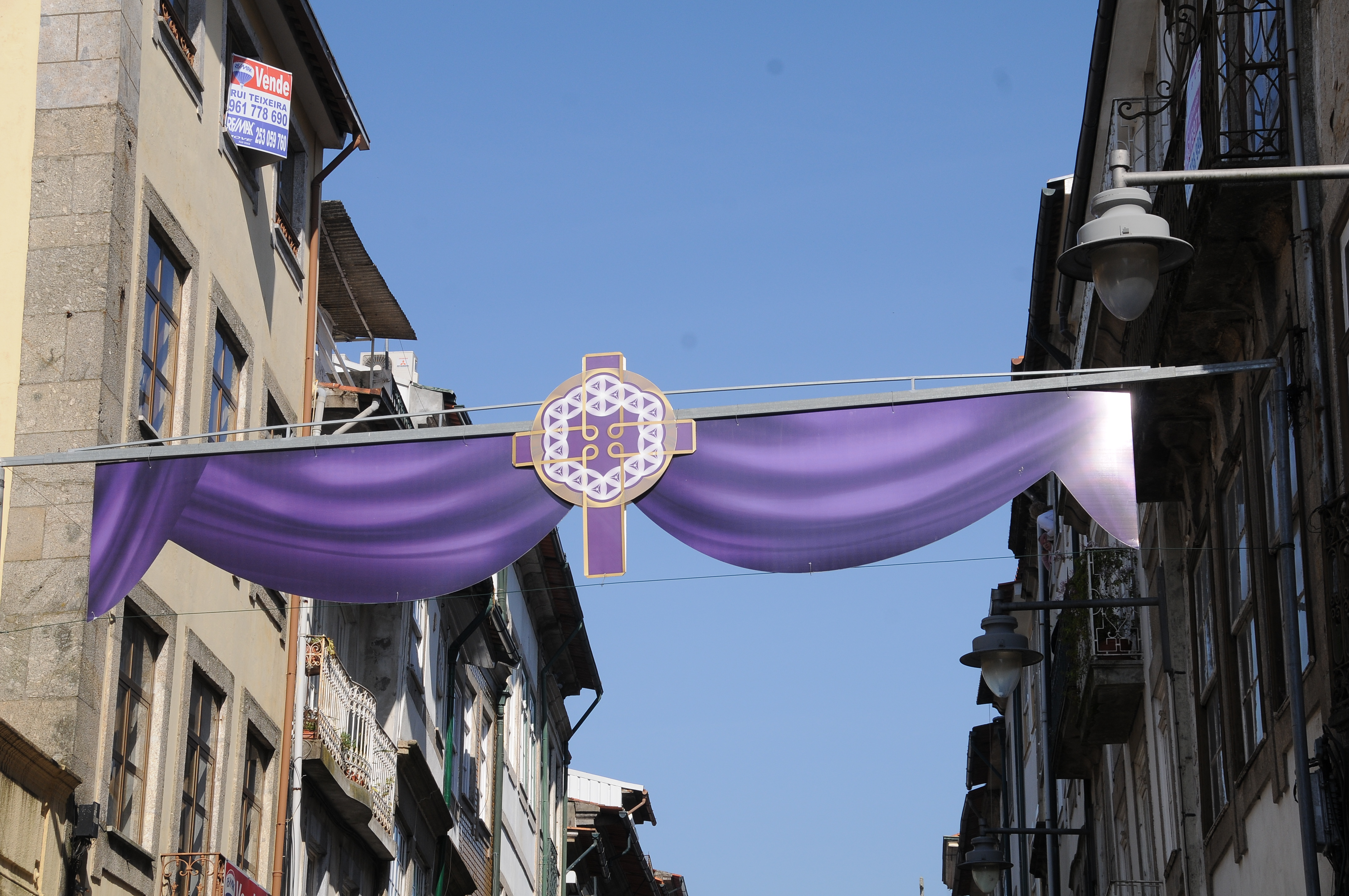 Street decoration in Holy Week in Braga, Portugal.